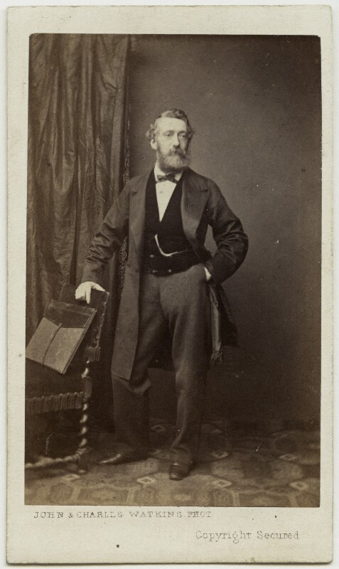 Jerry Barrett by John & Charles Watkins albumen carte-de-visite, early-mid 1860s 3 1/2 in. x 2 1/8 in. (89 mm x 55 mm) image size Given by Algernon Graves, 1916 Photographs Collection NPG Ax1493